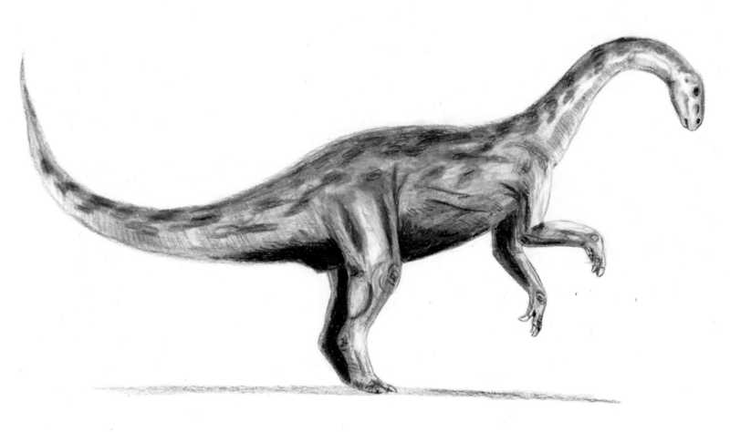 Yunnanosaurus, pencil drawing Author:User:ArthurWeasley